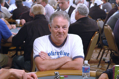 Thor Hansen in WSOP2006 2006 World Series of Poker - Rio Las Vegas.